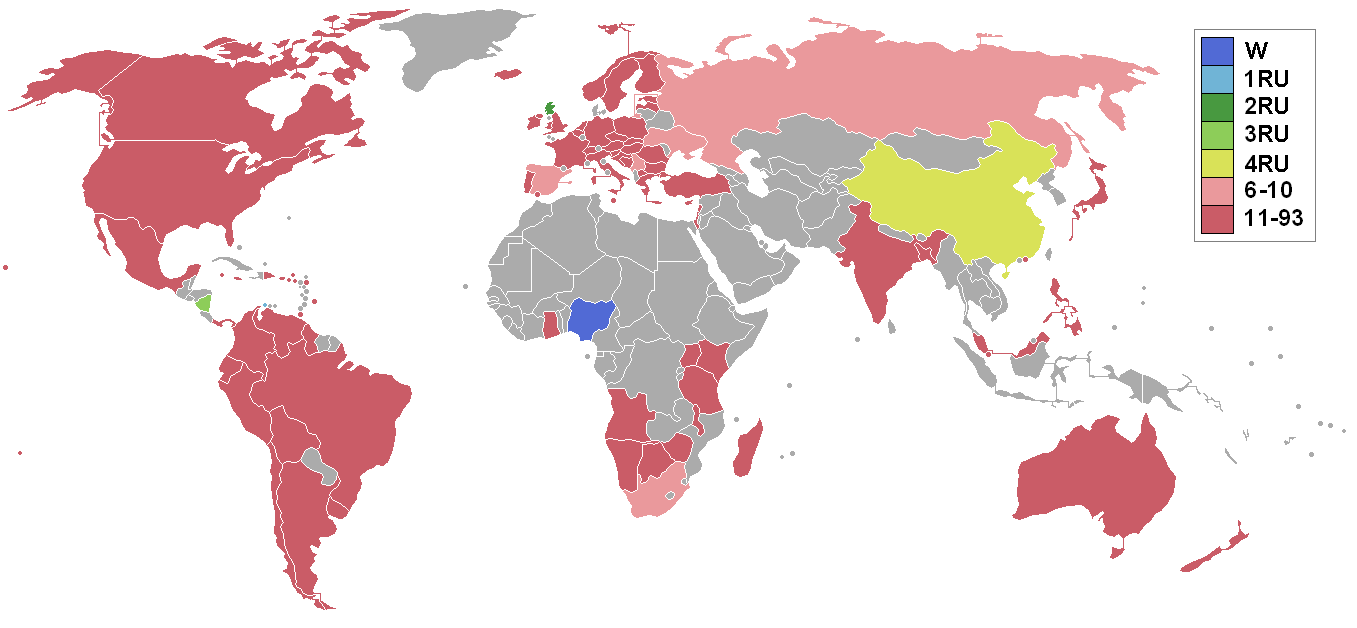 image created by Joey80